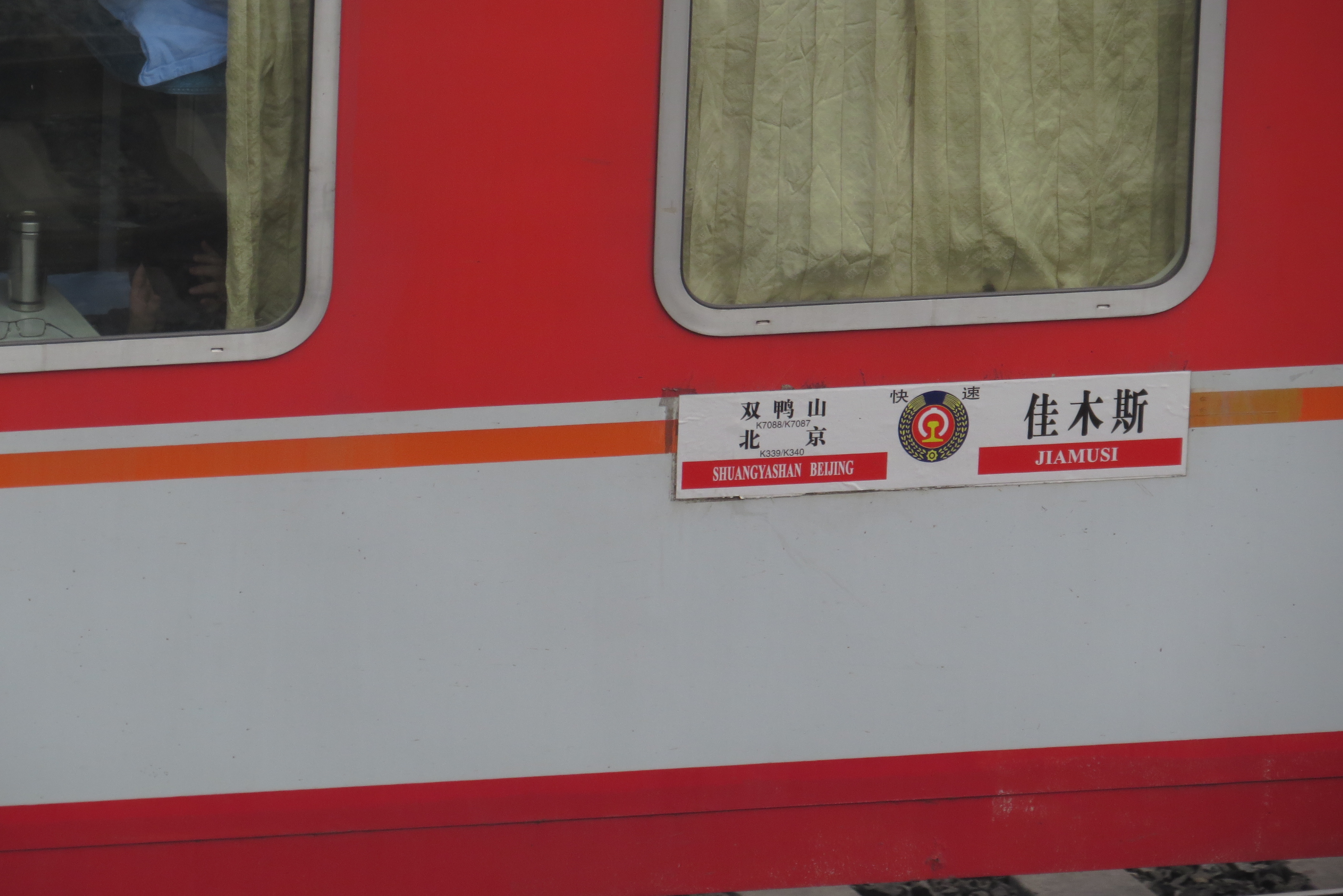 Beijing to Jiamusi. At Beijing Railway Station, you can never fail to capture trains from the Northeast.